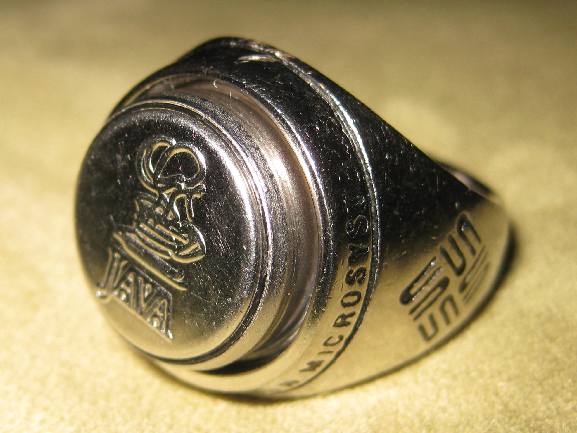 Java Ring - a ring with a built-in microprocessor, programmable in Java and powered by its own data communication connection. Given to attendees at the 1998 JavaOne conference.